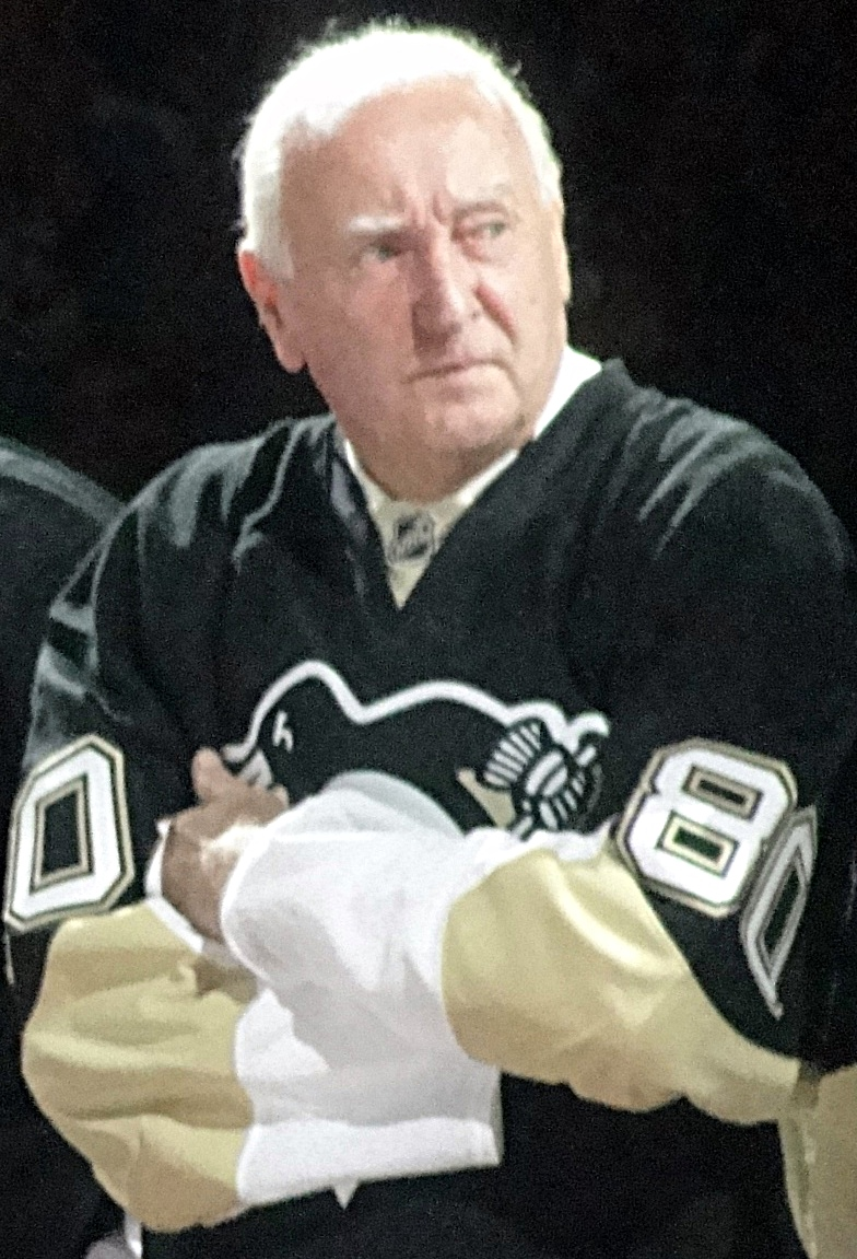 Eddie Johnston, former head coach and general manager for the Pittsburgh Penguins, returned to Pittsburgh to participate in the pregame ceremony honoring the final regular season game to be played at Civic Arena (Mellon Arena). April 8, 2010.